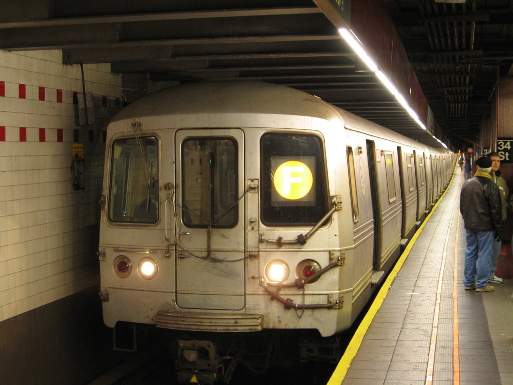 R46 F train, led by car 6028, at Herald Square station.